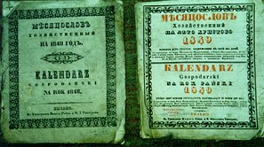 19th century Lithuanian calendars; the left in Russian, the right in Polish